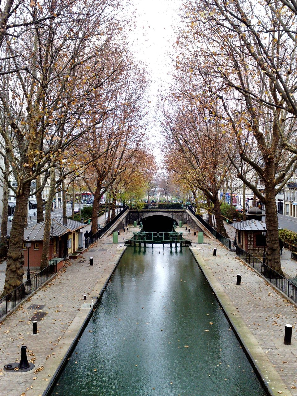 Le Canal Saint-Martin à Paris: vu de l'écluse des Récollets et la passerelle de la Grange-aux-Belles